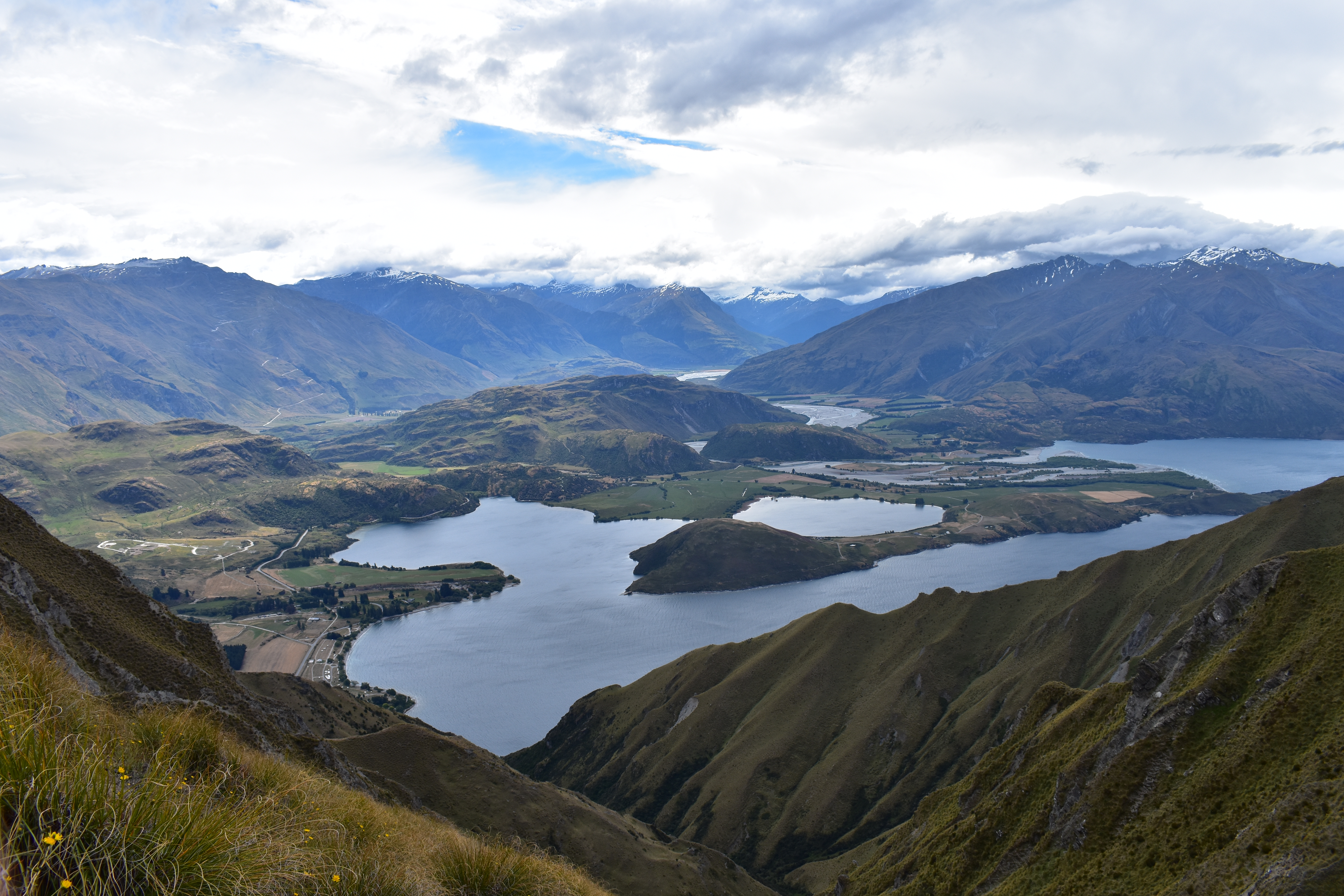 view from the Roy's peak 1